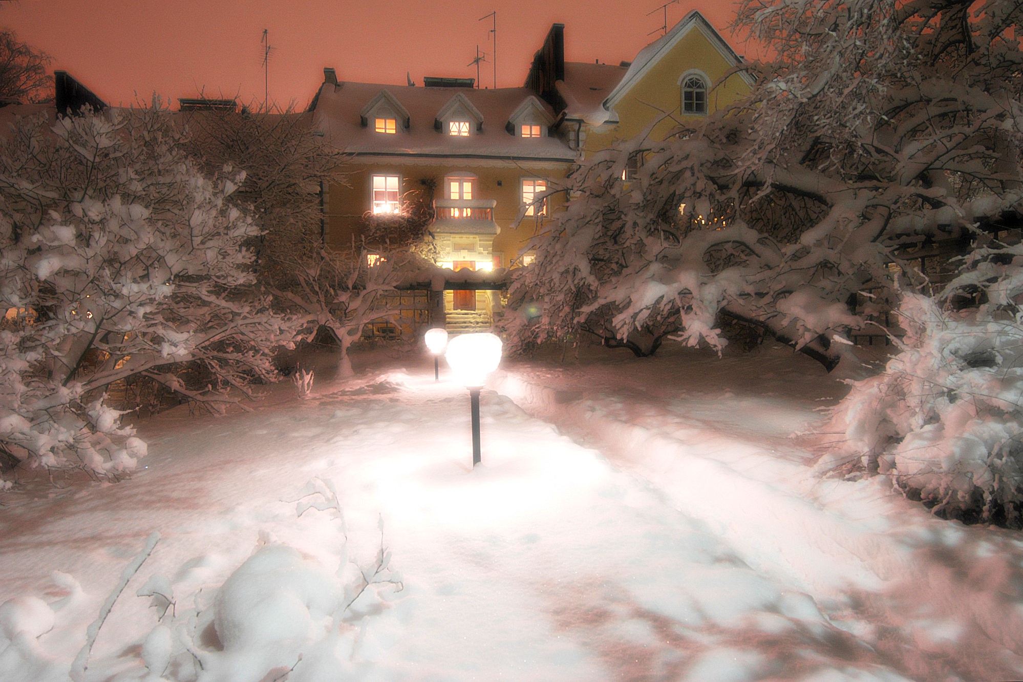 Ribbingshof shot from Vapaamuurarinkuja